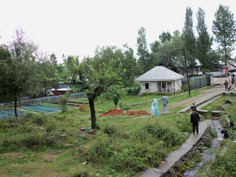 Fisheries department Khag on Naranag